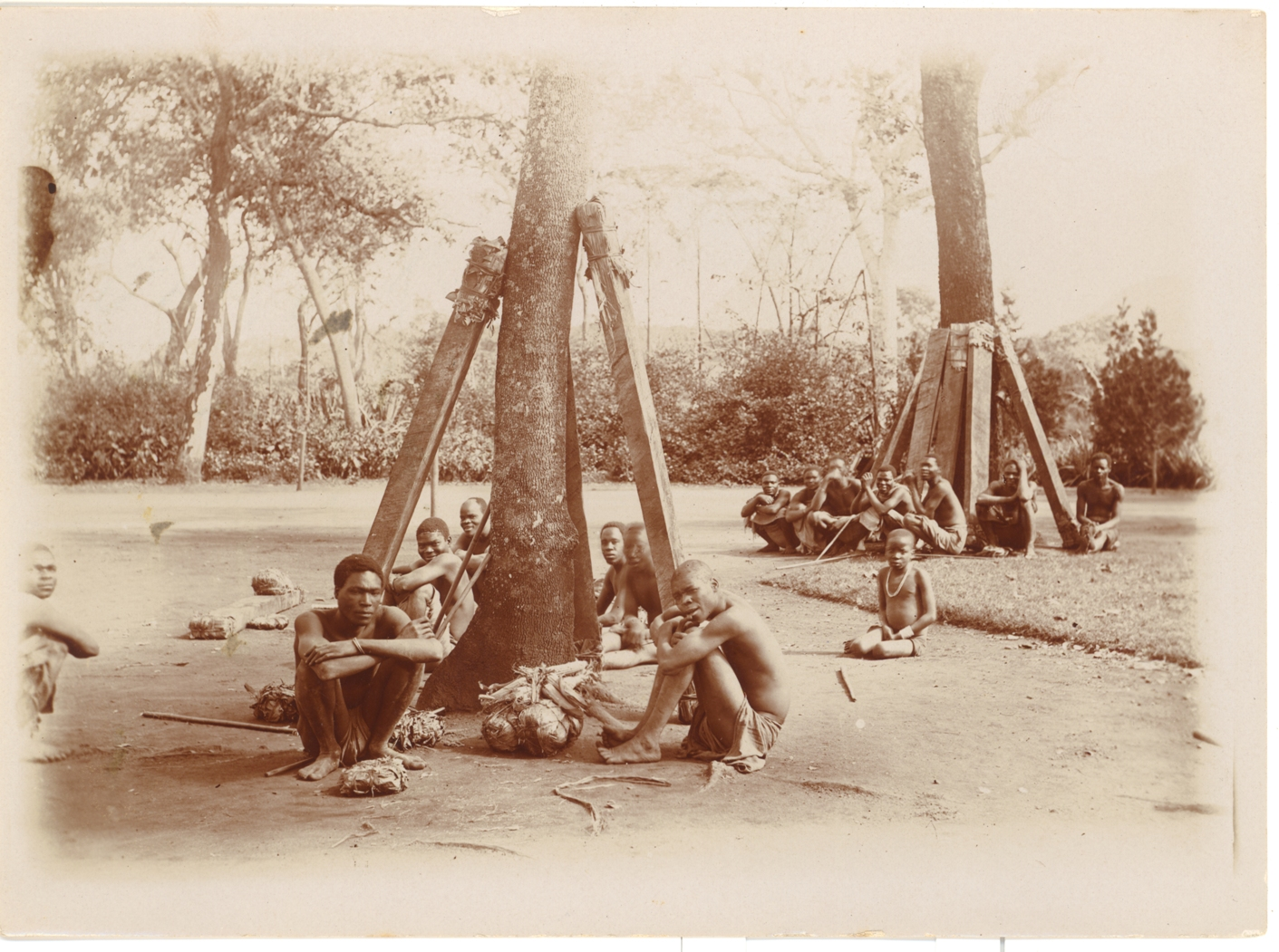 C. 1900. Ready for the road with sleepers for the Shire Highlands Railway